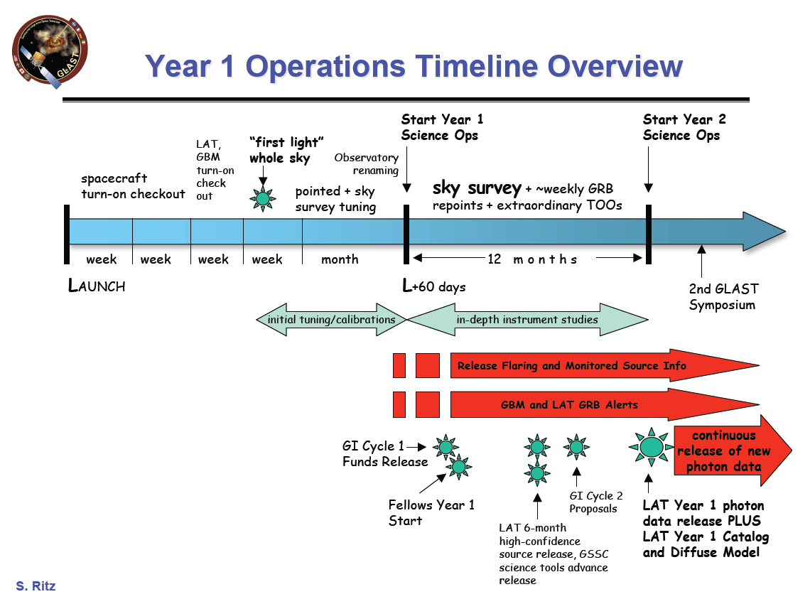 Timeline showing anticipated progression of GLAST operations.